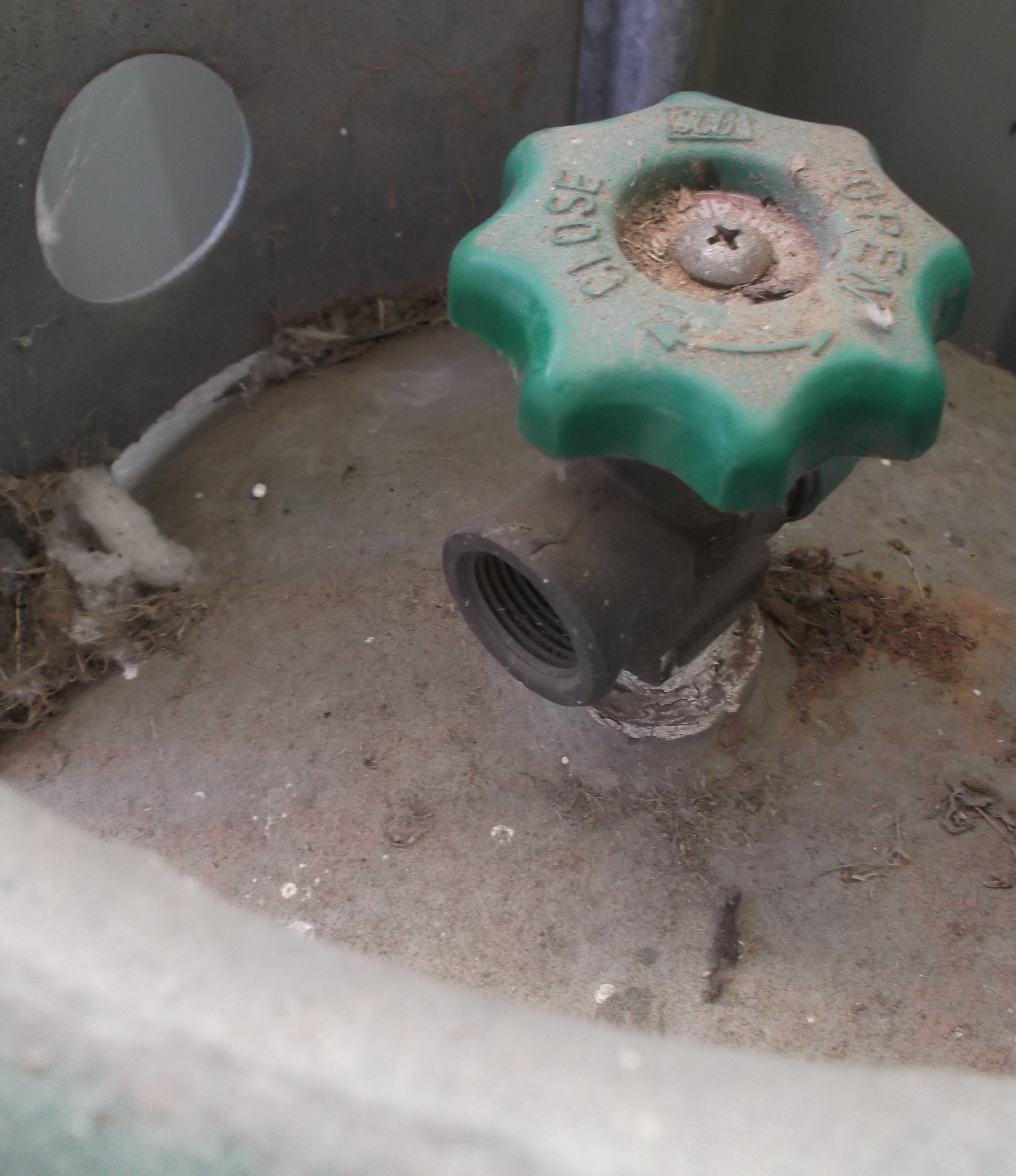 POL valve on a 45Kg LPG cylinder at my home, typical of such installations